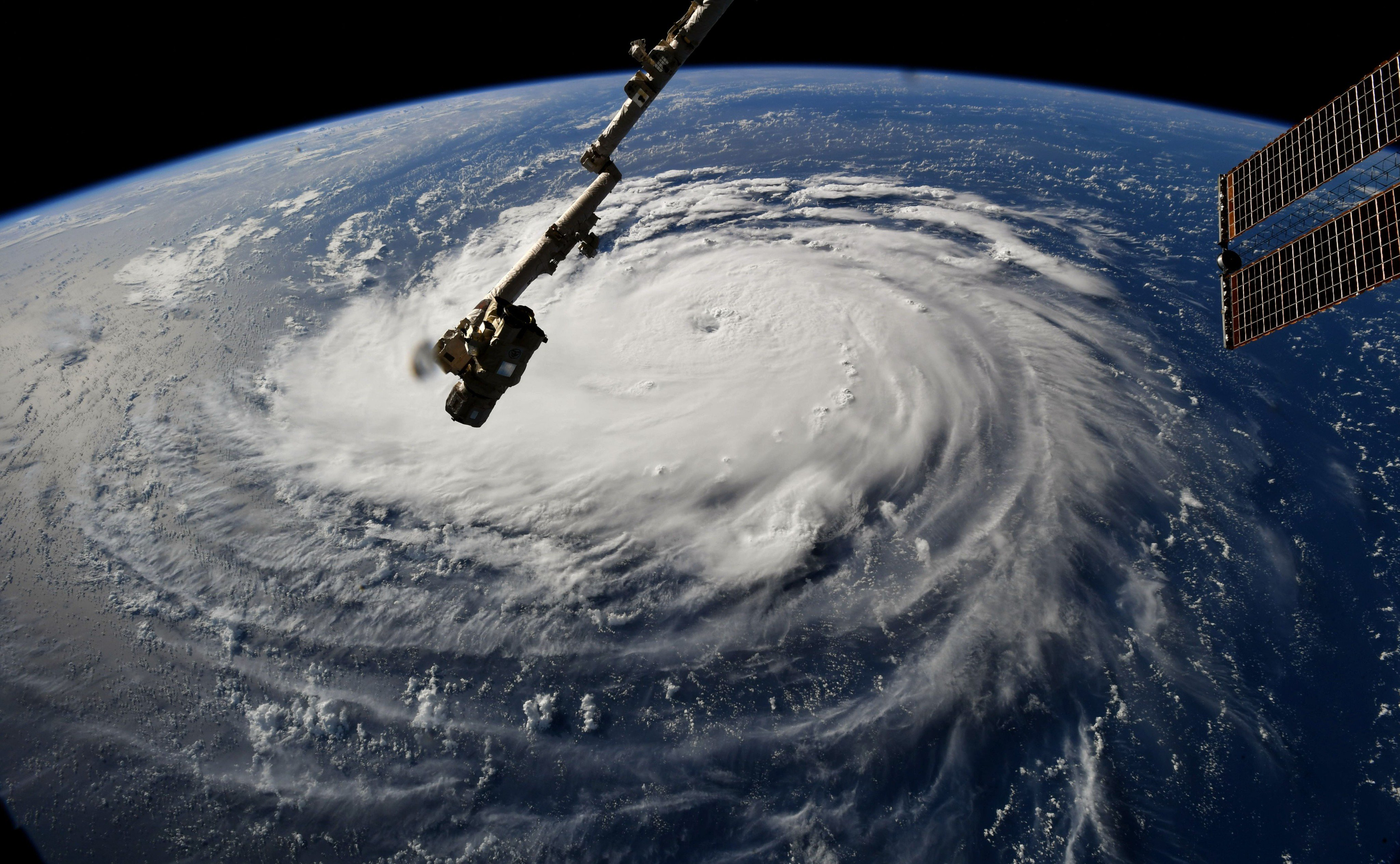 Astronaut Ricky Arnold, from aboard the International Space Station, shared this image of Hurricane Florence on Sept. 10, taken as the orbiting laboratory flew over the massive storm.